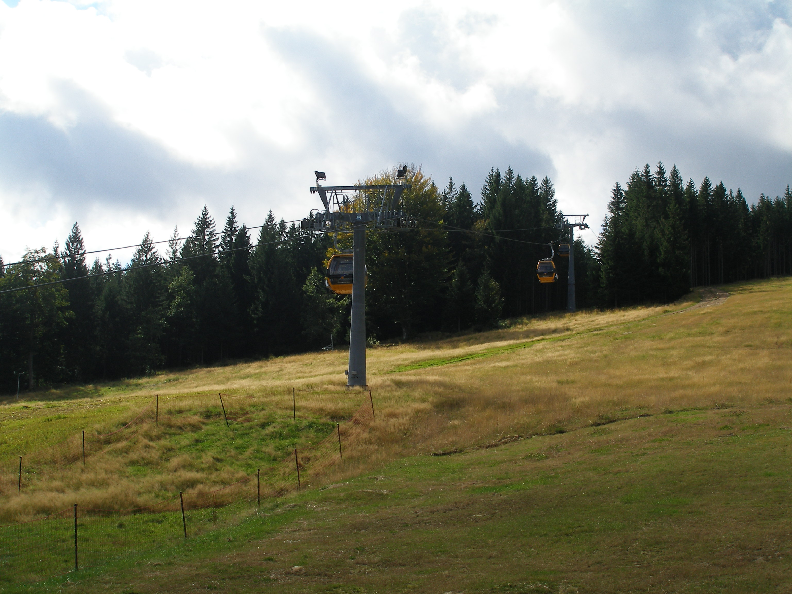 Cableway to Stóg Izerski, Poland.